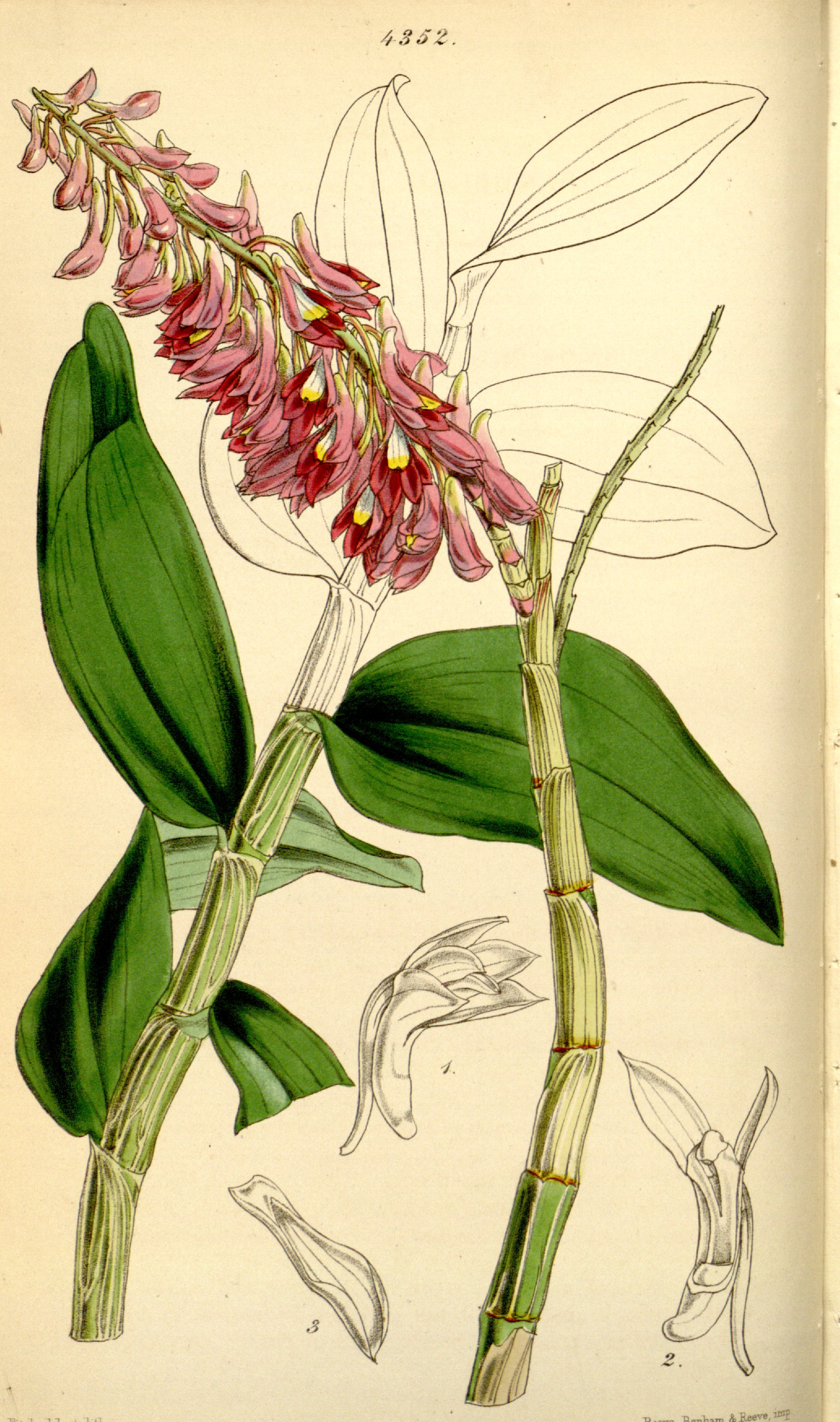 Illustration of Dendrobium secundum